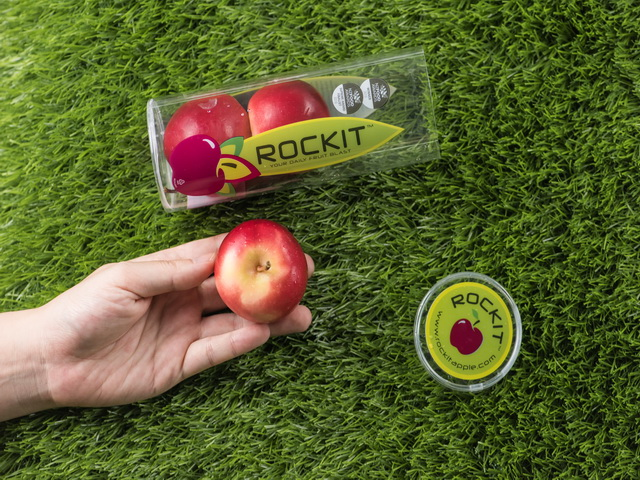 size of apples